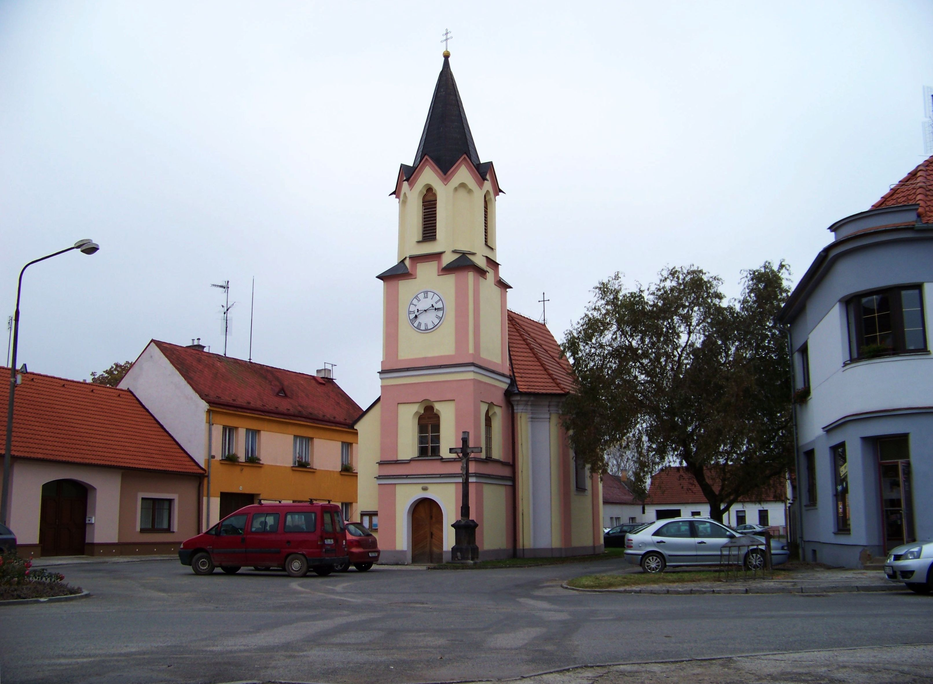 Veselí nad Lužnicí II, Tábor District, South Bohemian Region, the Czech Republic. Malé náměstí (Little Square), Saint Florian chapel. - Google Maps - Google Earth